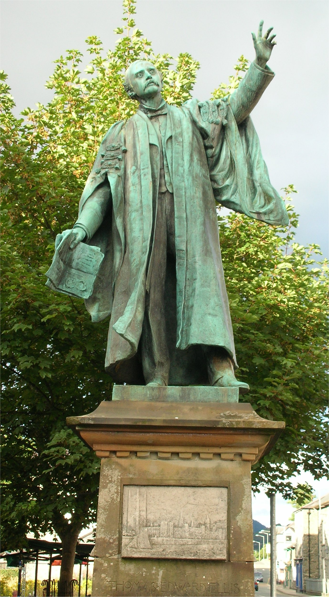 Statue of Welsh politician T. E. Ellis on the main shopping street in Bala, Gwynedd, Wales. Photographed by me 25 August 2007. Oosoom